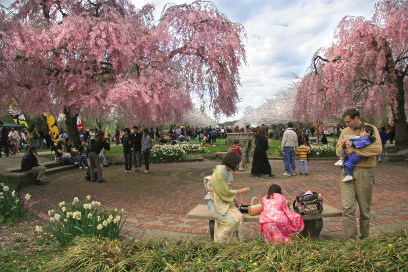 Sakura Sunday 2008 -- Main event of the Subaru Cherry Blossom Festival of Greater Philadelphia. Taken at the Horticulture Center in Philadelphia's Fairmount Park. The two large trees in the foreground a part of the original 1926 plantings donated by the Japanese government.